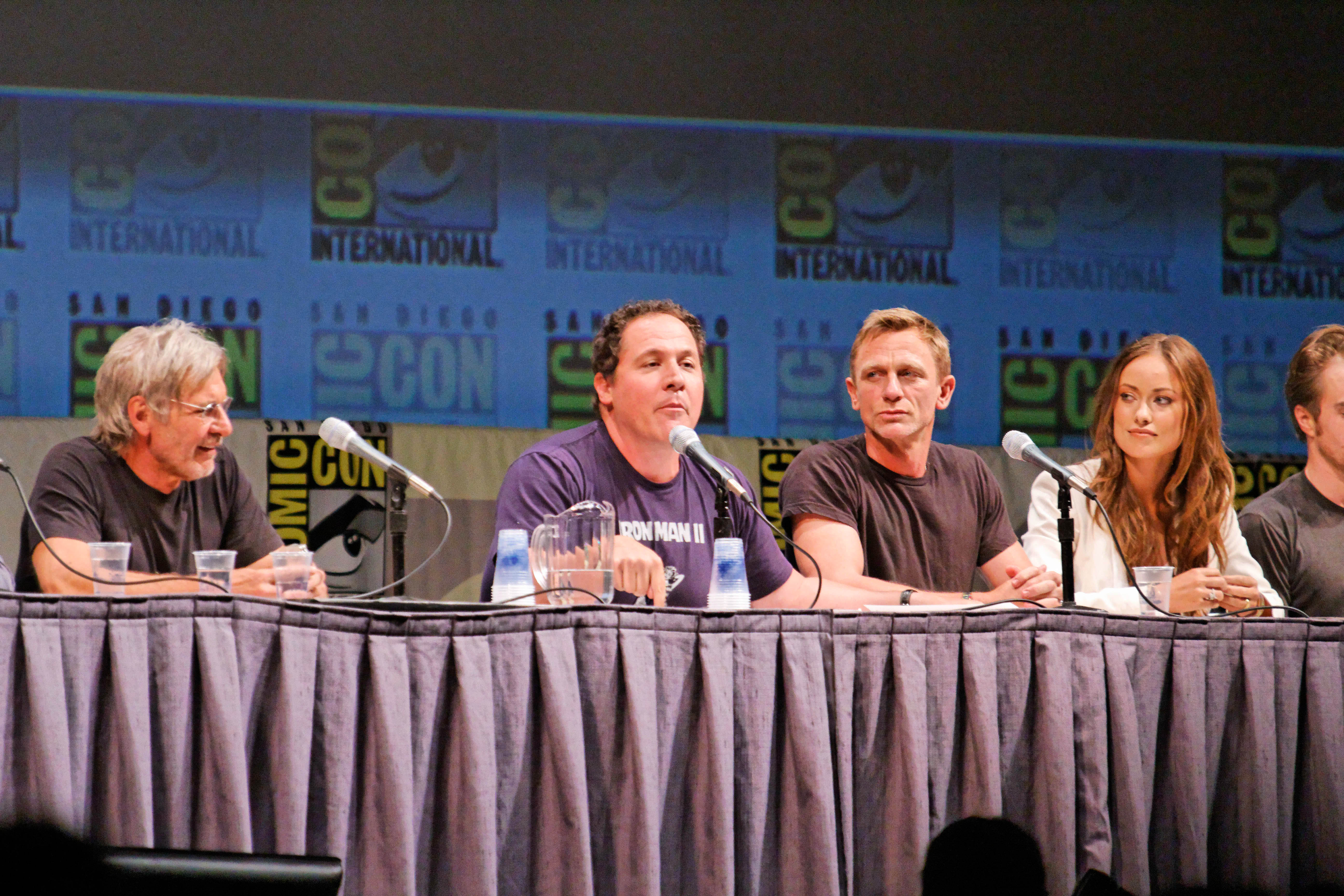 The cast of Cowboys & Aliens at the 2010 San Diego Comic-Con International featuring Harrison Ford, Jon Favreau, Daniel Craig and Olivia Wilde.